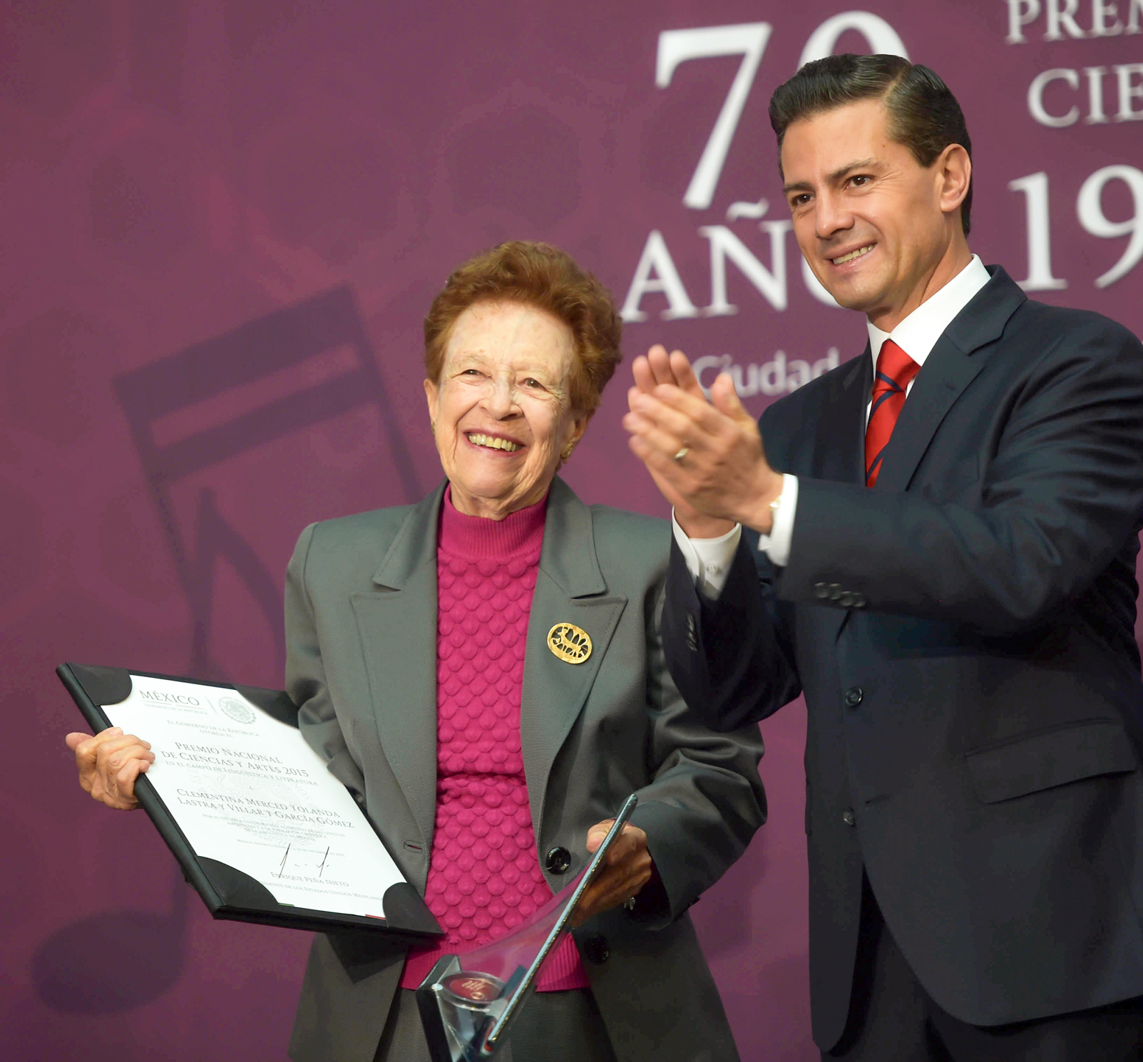 Science and Art National Prize 2015. Mexico City. 16 December, 2015.